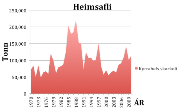 Veiðar á kyrrahafs skarkola